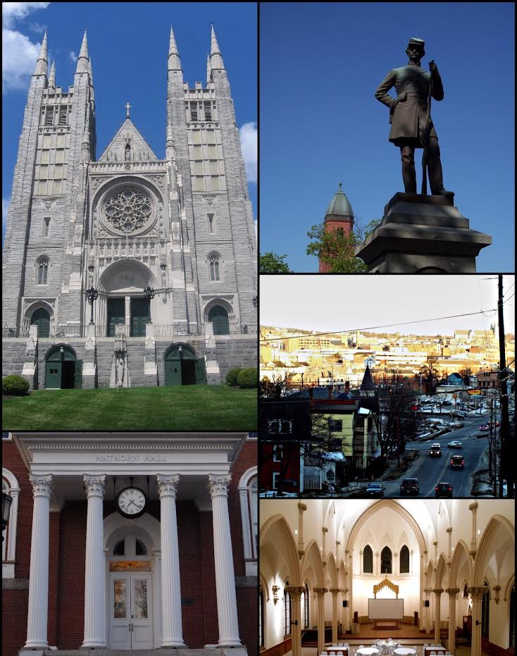 A Montage of Lewston, Maine